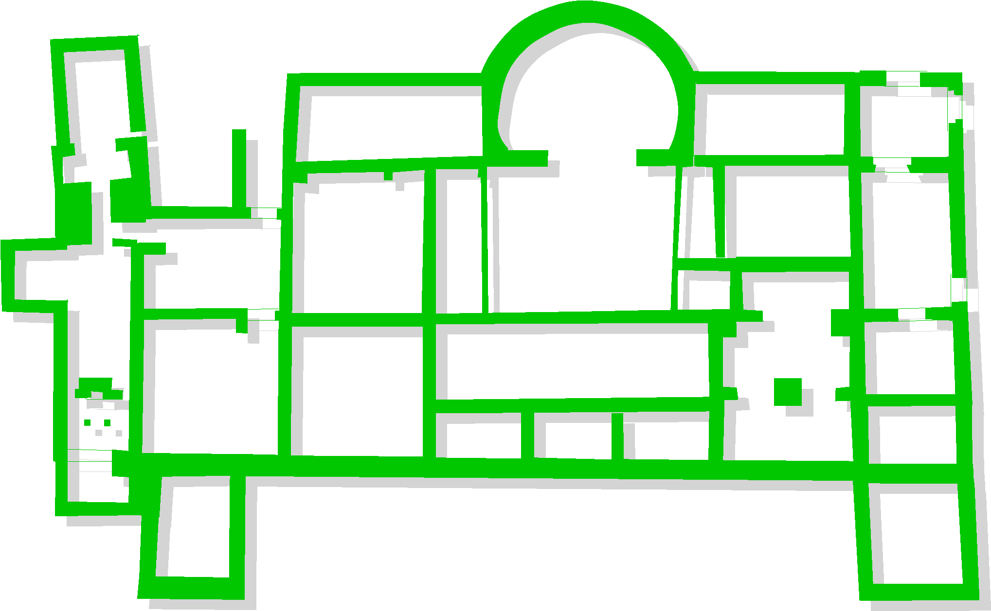 Lullingstone, villa, plan about AD 400